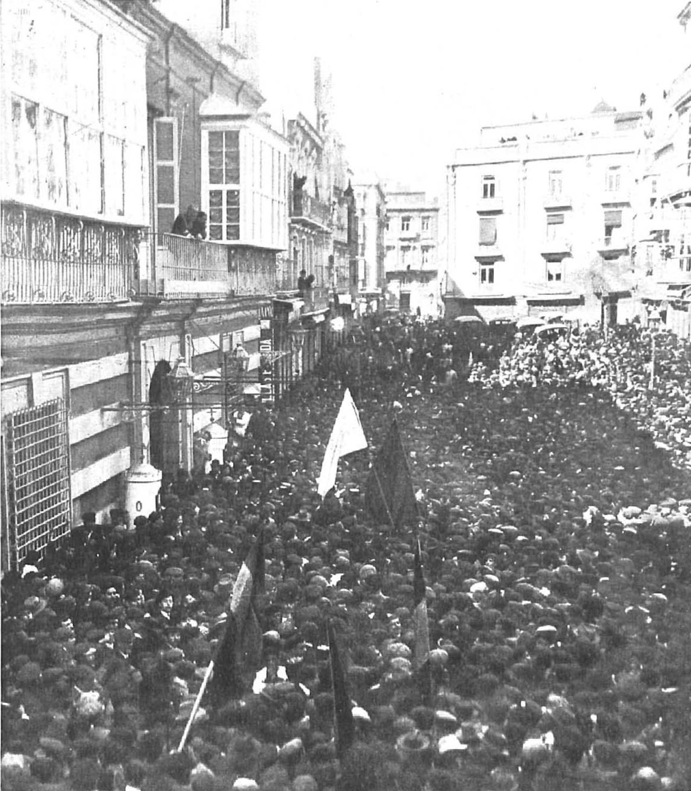 The demonstrators in front of the Captaincy General. On Wednesday of last week a public demonstration was held in Cartagena to ask the government to suspend the dismissal of the workers in the Arsenal. Although the demonstration was convened by the workers' societies, valuable elements of trade and politics were also part of it: it was presided over by Senator Mr. Maestre, lawyer Mr. García Vaso, President of the Chamber of Commerce and other outgoing persons. It is estimated that the act represented about 20,000 people. The mayor, Don Luis Aguirre, on receiving the protesters' commission, declared that he was completely identified with the aspirations of the workers and that he made them his own.